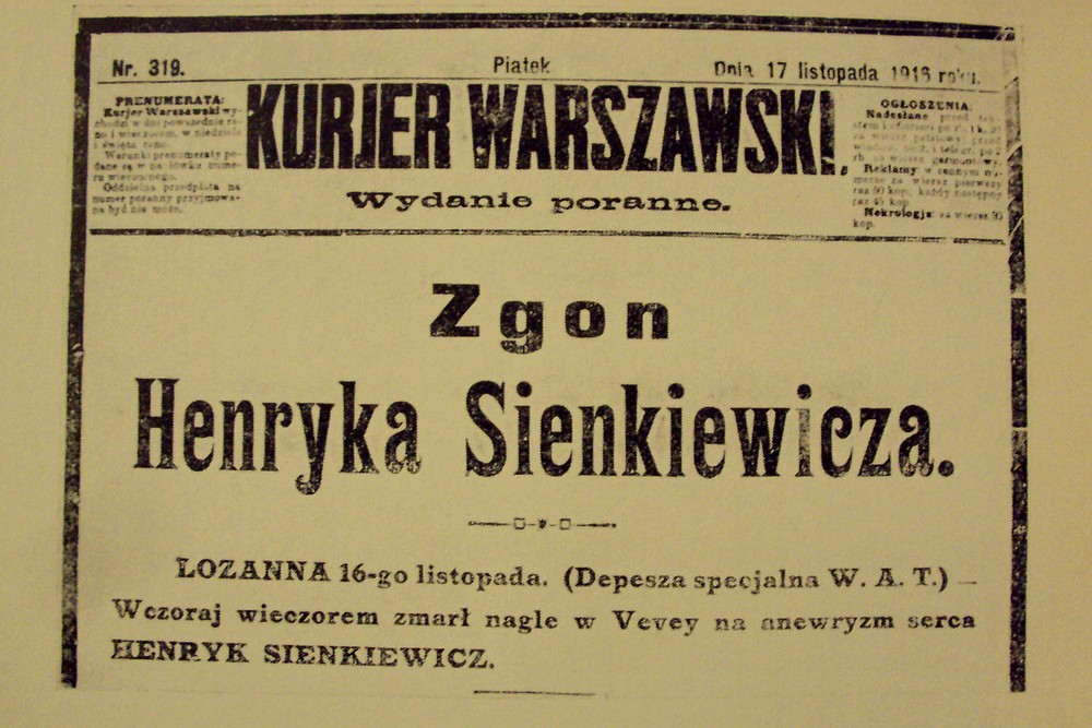 Warsaw Courier of 17 November 1916, informing about the death of Henryk Sienkiewicz